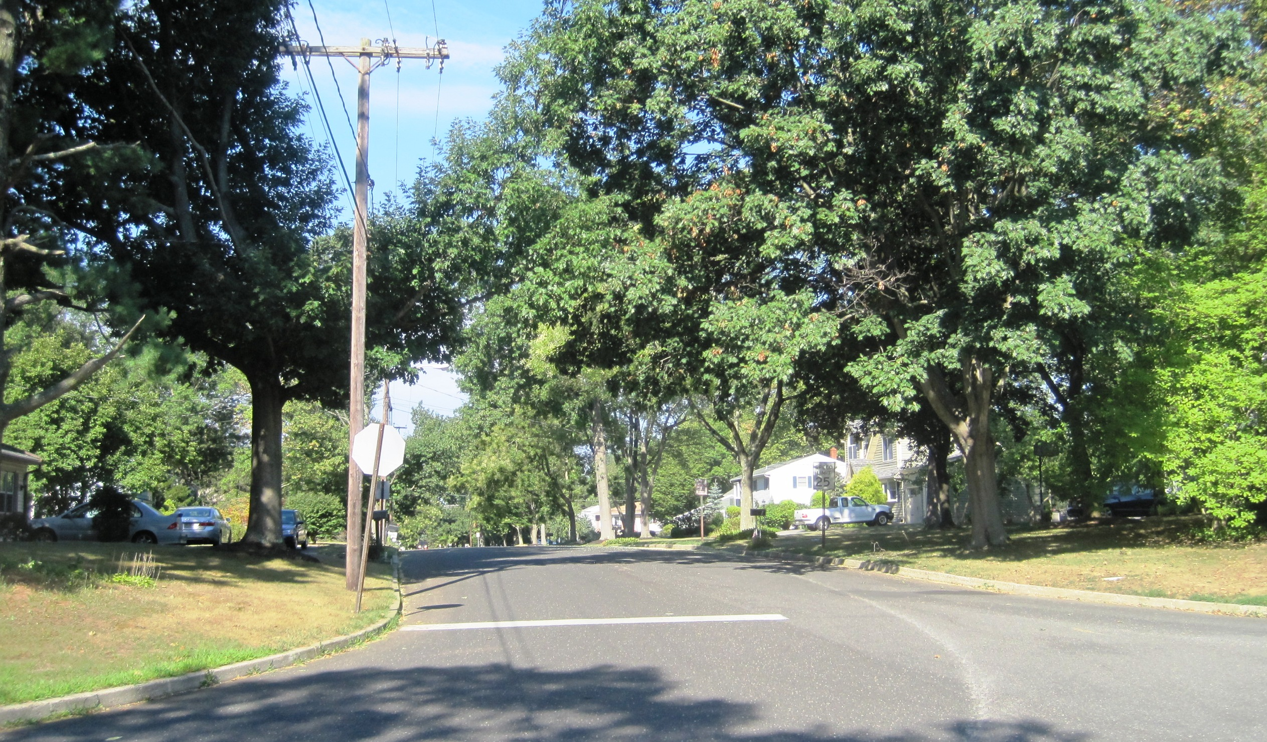 Photo of Millstone, Mercer County, New Jersey, an unincorporated community within East Windsor Township. Photo showing Rocky Brook Road taken from Old Cranbury Road.